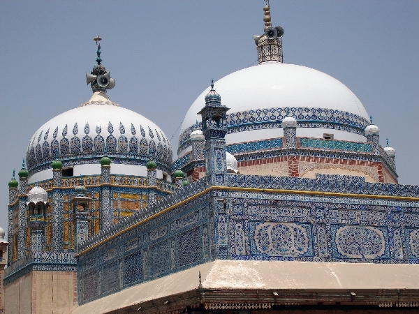 Photo of Khawaja Ghulam Farid tomb at Kot Mithan